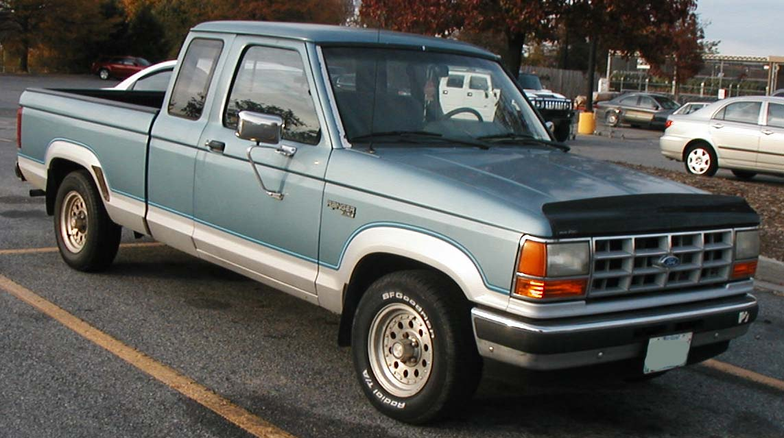 1989-1992 Ford Ranger photographed in USA.